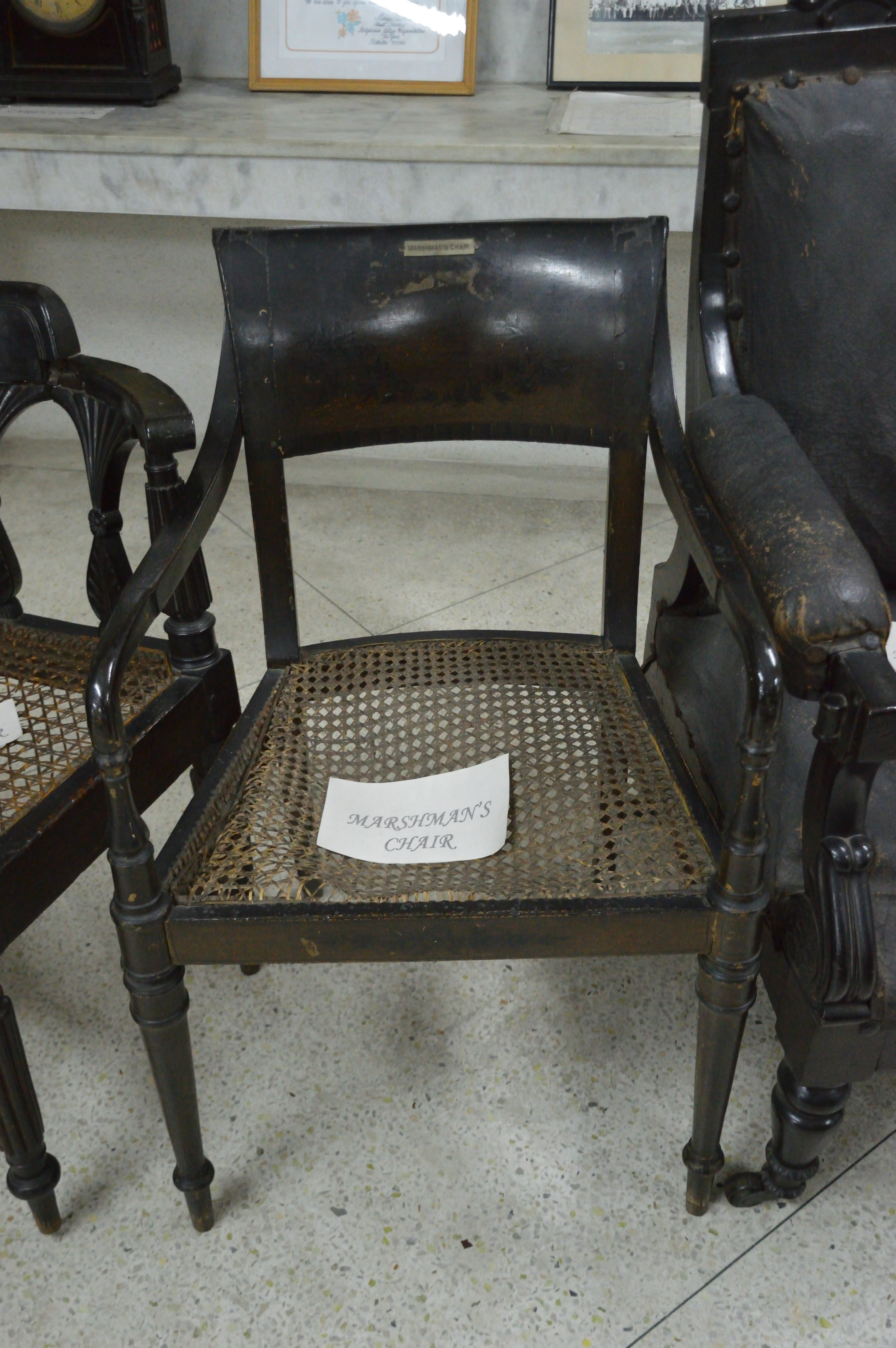 Photographed at Serampore, Hooghly.